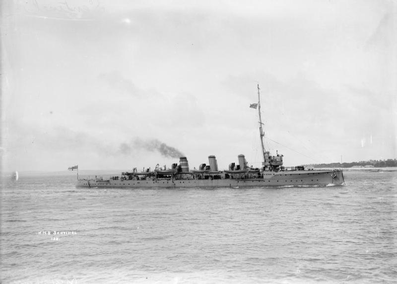 British scout cruiser HMS SENTINEL.